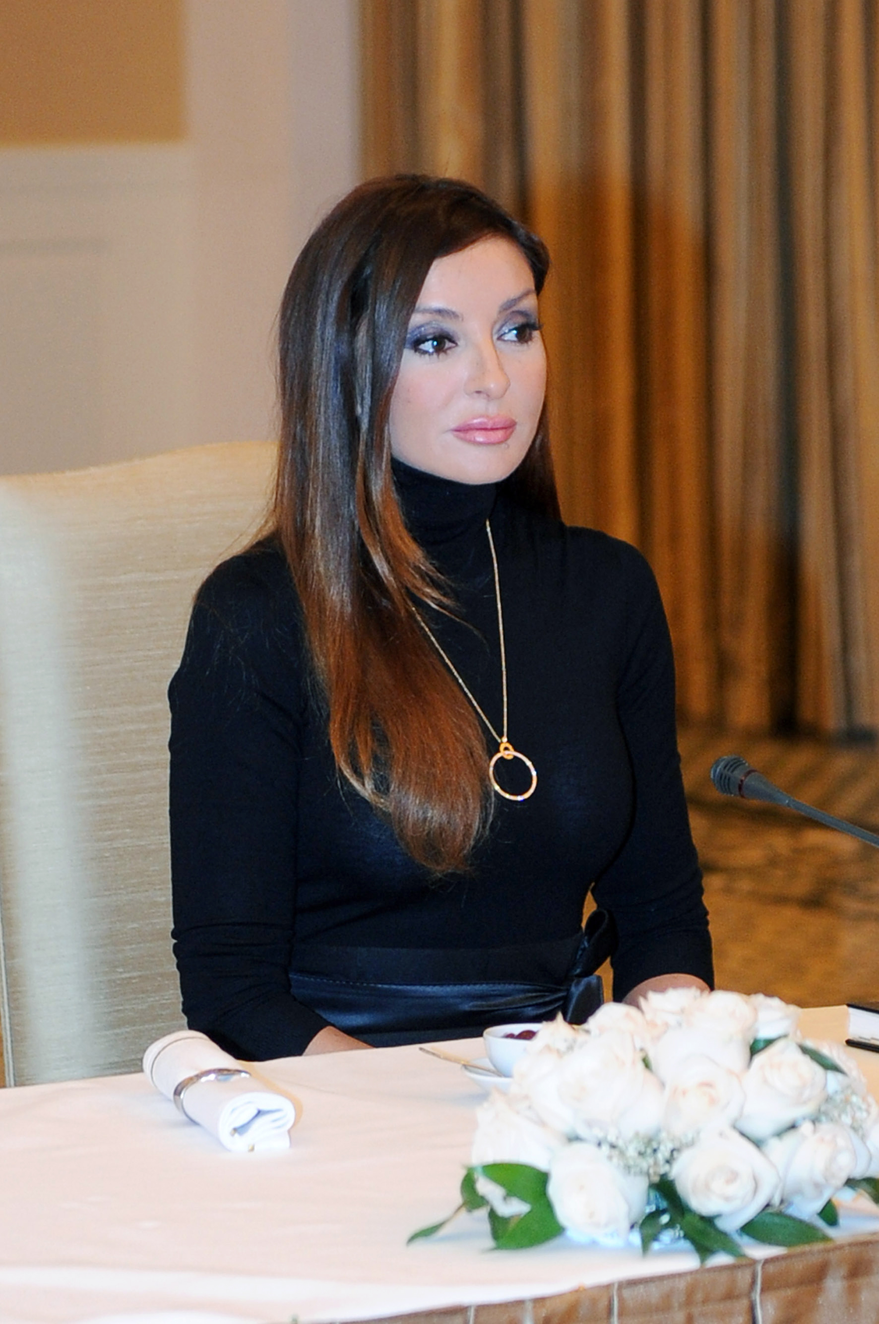 Mehriban Aliyeva - First Lady of Azerbaijan.